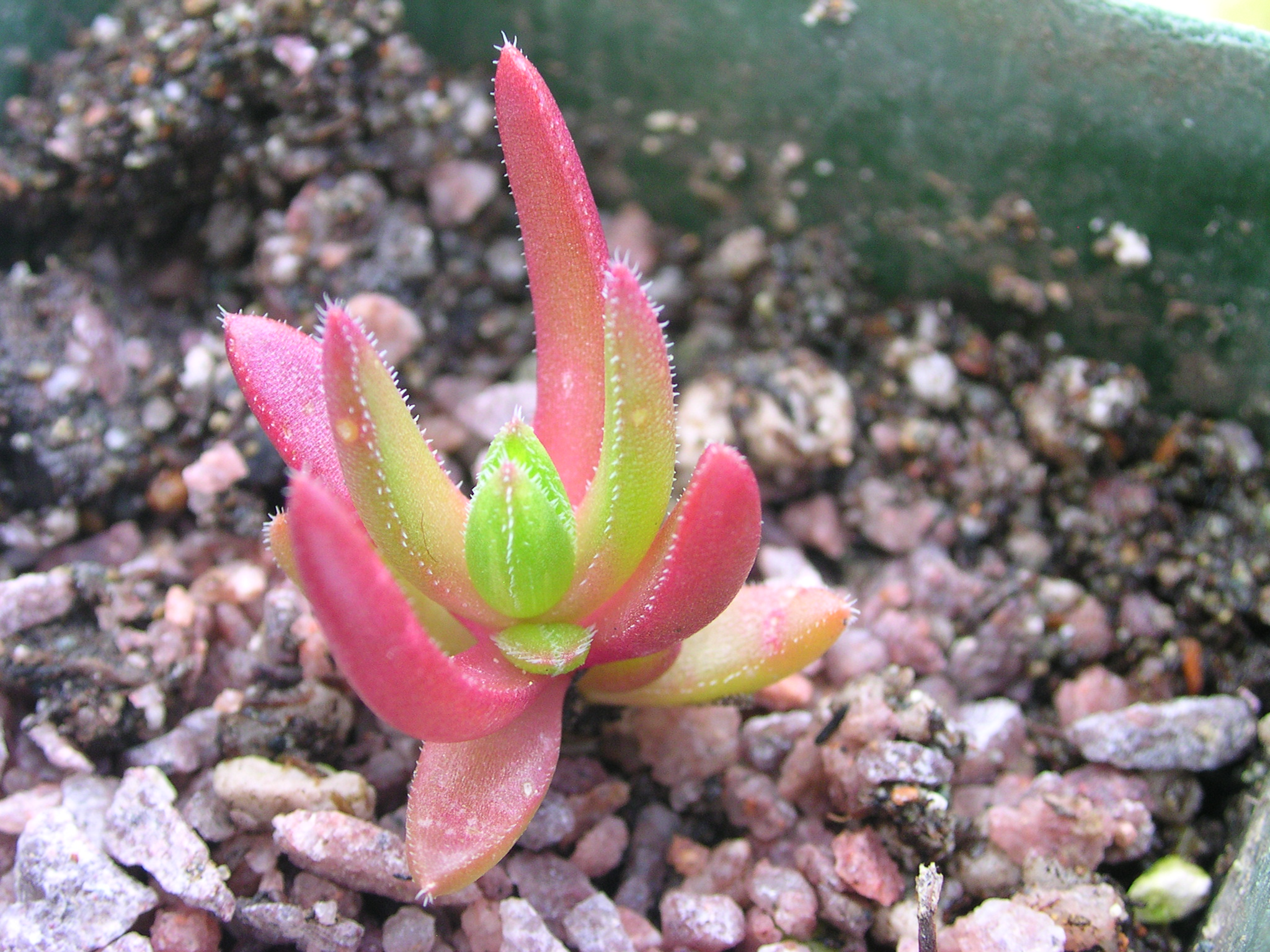 Delosperma congestum Aizoaceae Gold Nugget Ice Plant South African alpine succulent 041605 I_041605_103